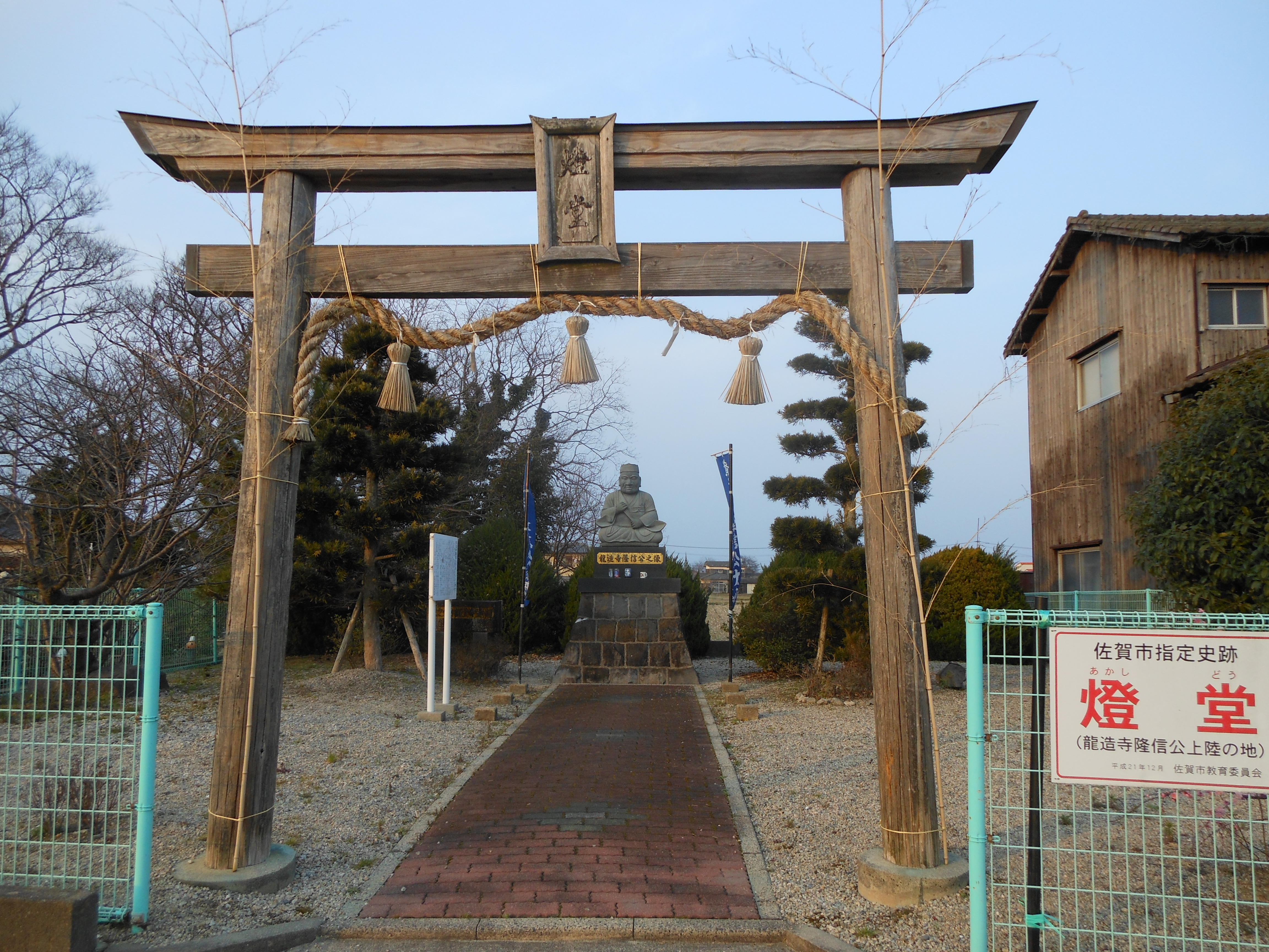 "Akashidō" in Kawasoe, Saga City. It is a Shrine worships Ryūzōji Takanobu.